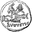 Denarius with Capricorn, cornucopia, rudder of a vessel and the inscription AVGVSTUS.